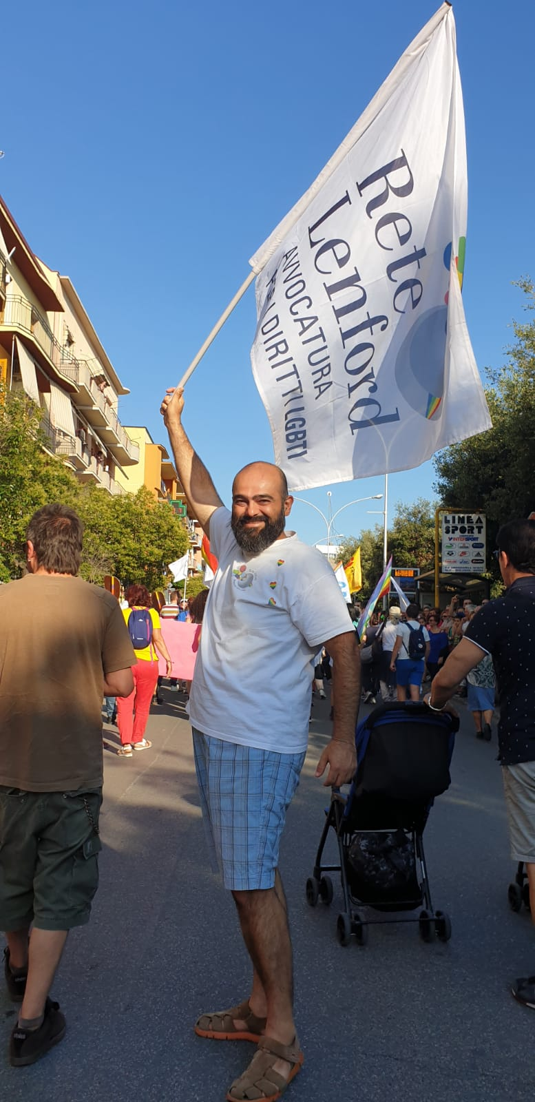 20190720 Matera Pride